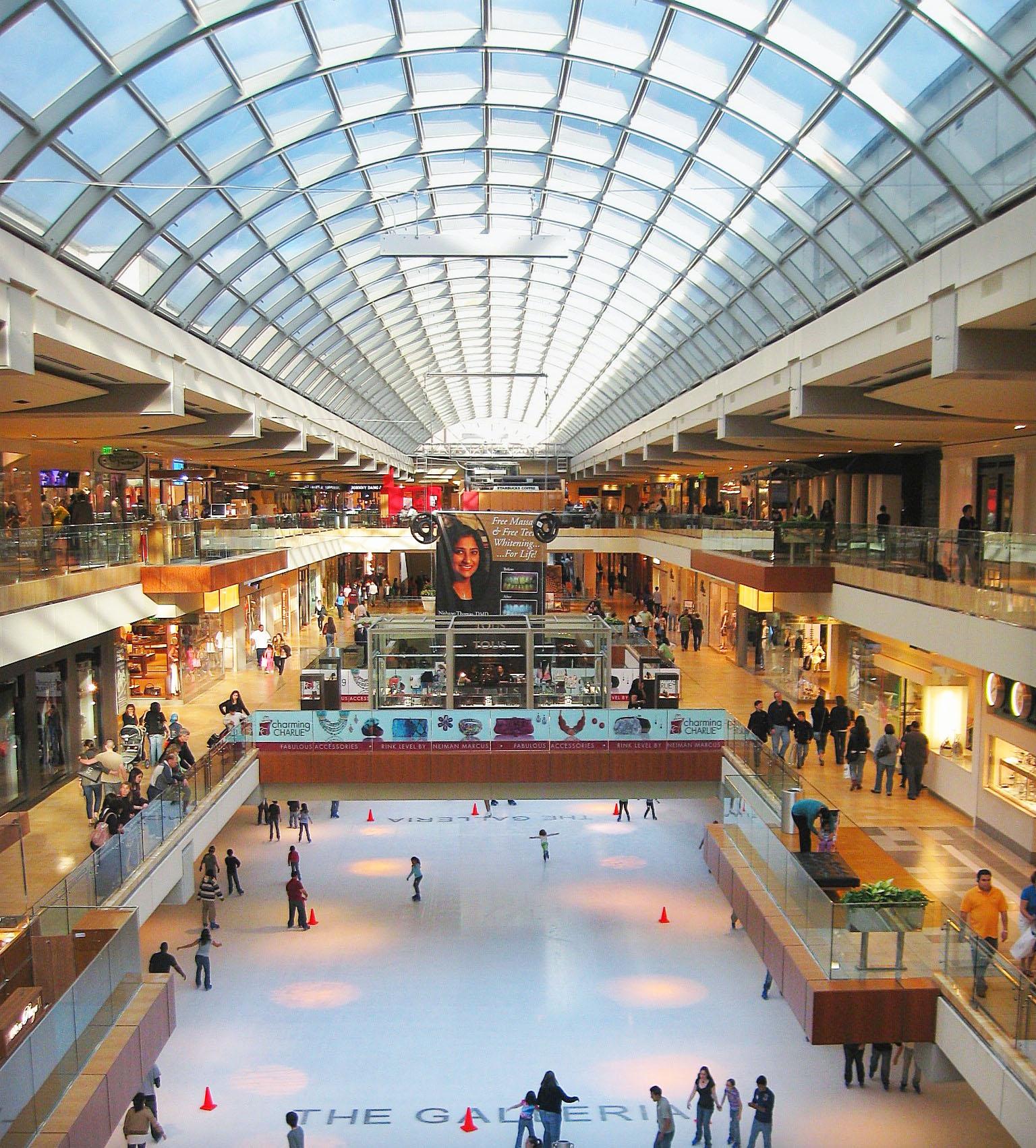 Author:User:Postoak The Galleria, Houston, Texas - first building